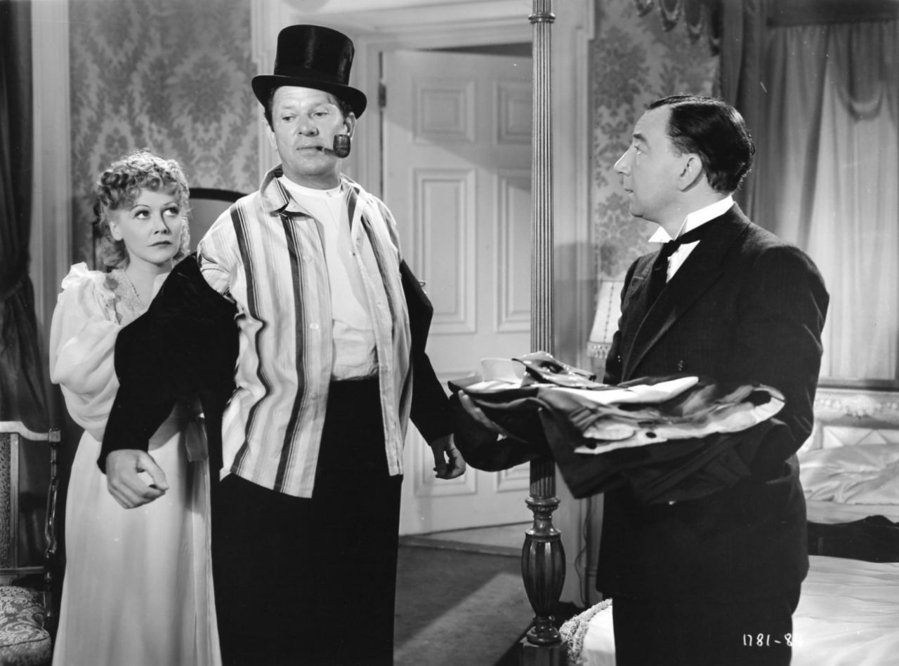 Promotion photo: Gladys George with Bob Burns and Melville Cooper in I'm from Missouri (1939).